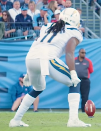 Geremy Davis 2019. Image from video Titans Mic'd Up vs. Chargers (Week 7) | Sounds of the Game, ~ 00:43.